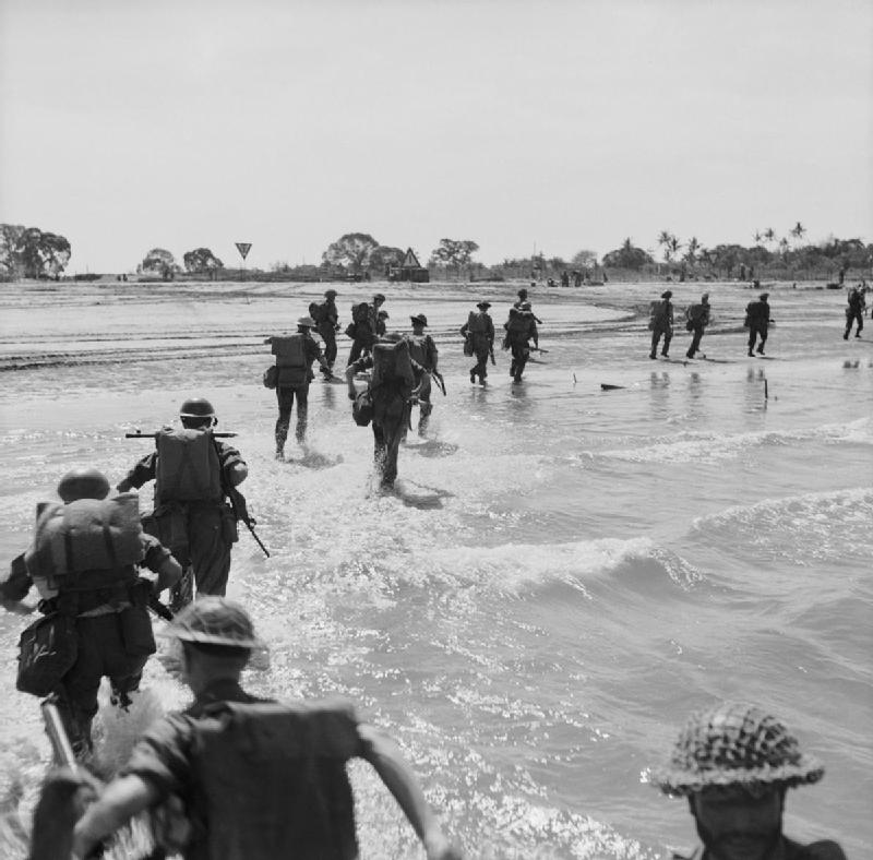 The first wave of assault troops land at Ramree Island. These would be men of 71st Indian Infantry Brigade.